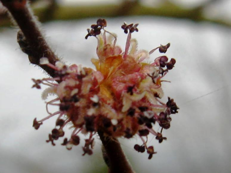 Flower of Ulmus minor grown from seed collected in Provence.